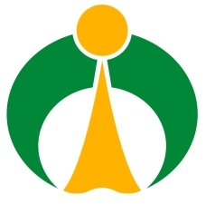 Shiso Hyogo chapter